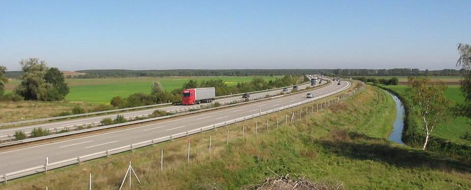 Bundesautobahn 9 im „Baruther Urstromtal“ (glacial valley), state Brandenburg, Germany. In the background the plateau Zauche.